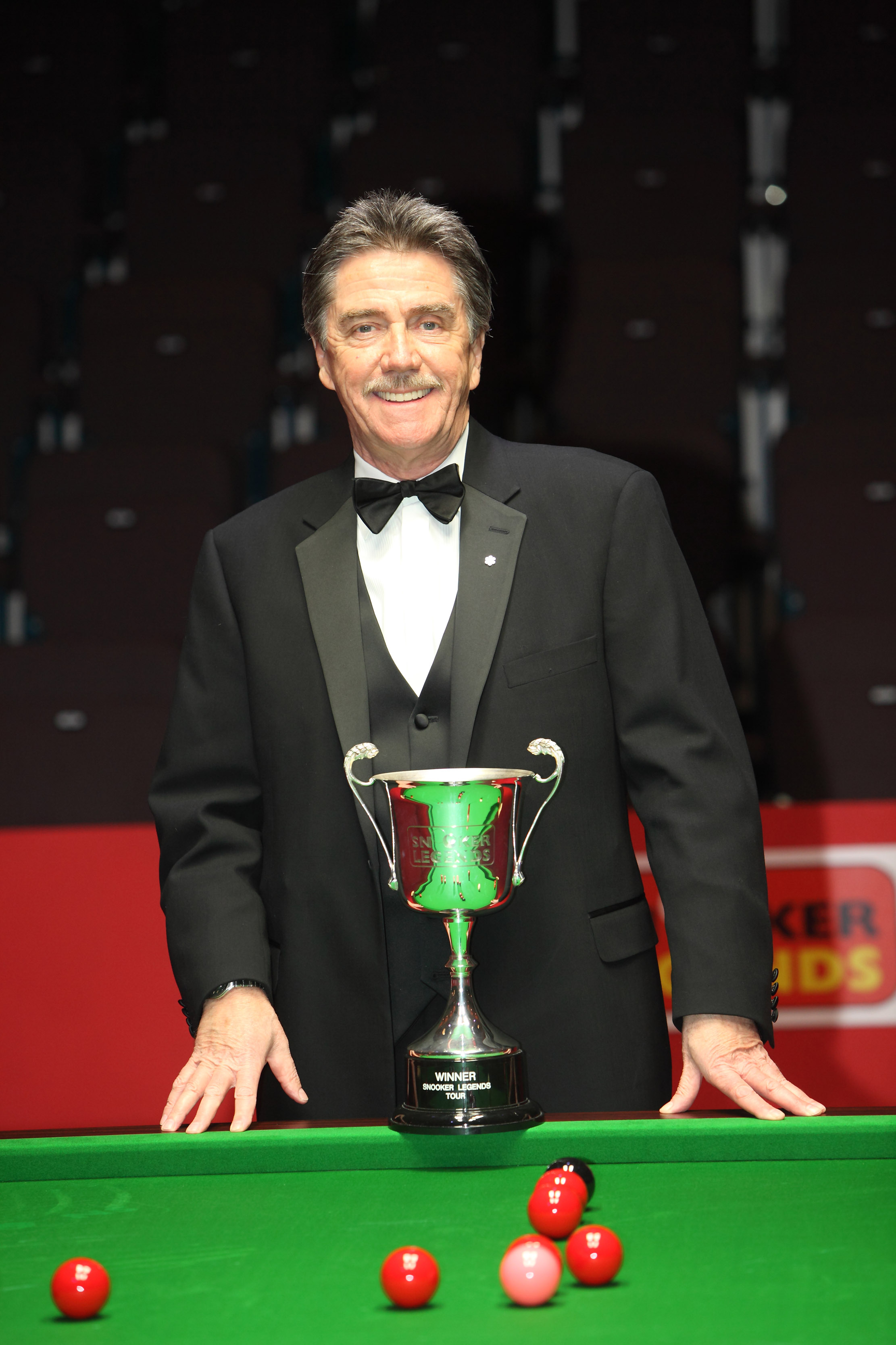 Picture of World Snooker Champion Cliff Thorburn taken during the Snooker Legends Tour of 2010. This was held at The Crucible Theatre in Sheffield England